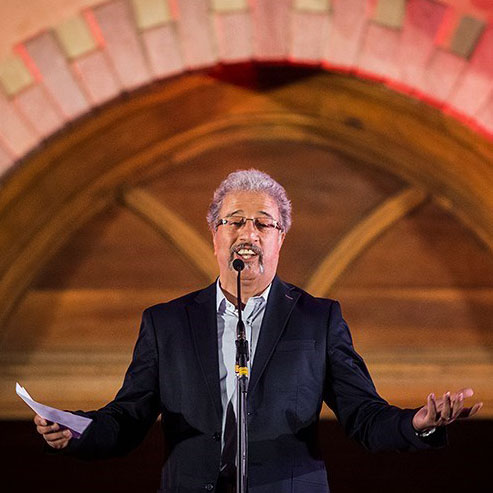 17th Iranian cinema celebration was held in Masoudieh Mansion by Iran's House of Cinema.